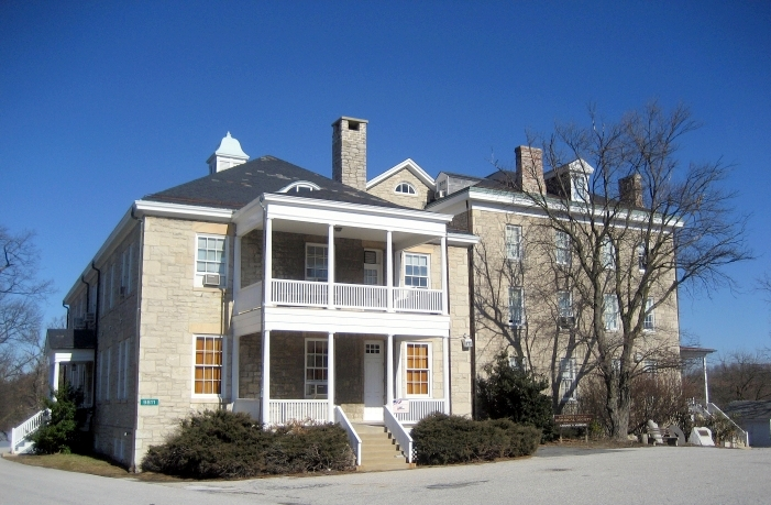 The Agriculture Building, the former Baltimore Country, Maryland, almshouse.